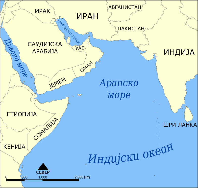 A map showing the location of the Arabian Sea in the Indian Ocean in Serbian.